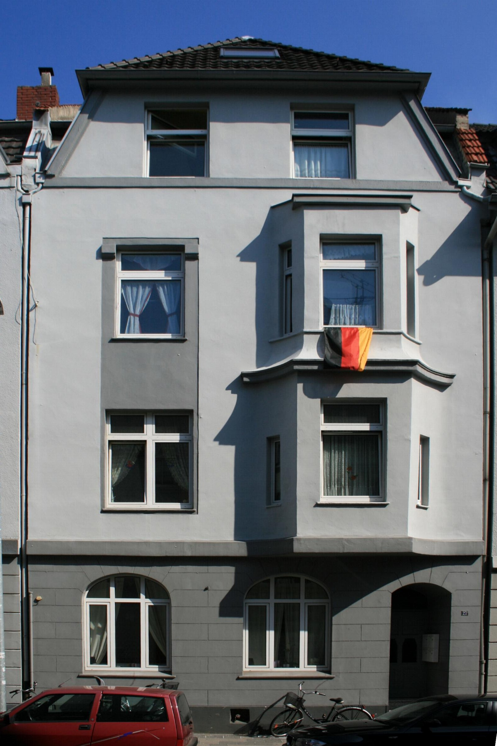 Cultural heritage monument No. N 002 in Mönchengladbach